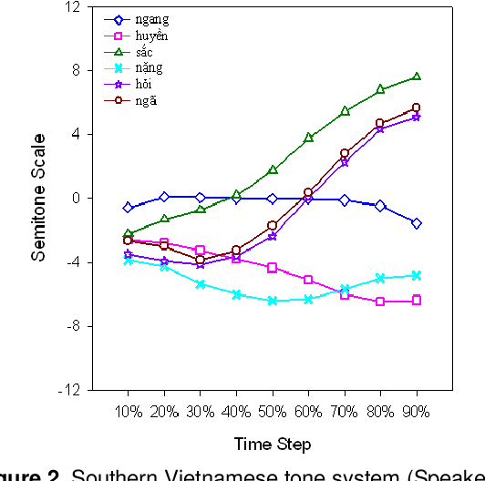 The plot describe tone system of Southern Vietnamese, especially the merging between hỏi and ngã tones, and low falling-rising tone, the nặng tone.